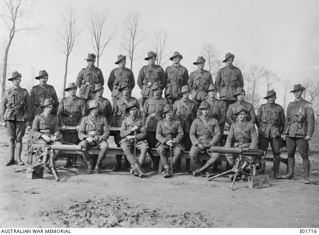 AWM Caption : Western Front: (Belgium), Ypres Area, Locre. Group portrait of the officers and NCOs of the 24th Machine Gun Company. In the foreground are two Vickers machine guns on their tripods. Left to right, back row: 422C Corporal (Cpl) J. H. Parker 429B Cpl H. J. Heywood 425A Cpl G. B. Redford MM MSM 372 Cpl C. W. Lane 438 Cpl P. P. Murphy 427B Acting Cpl J. W. Biggs Middle row: 504 Cpl H. S. Chave 1928 Cpl H. W. Courtney 501B Sgt C. W. E. Morris 426D Transport Sergeant (Sgt) C. Sugg MM 422A Sgt C. C. McPhee 617 Company Sergeant Major (CSM) P. O'Brien 414D Sgt V. A. J. Deeker 460A Sgt F. P. Packer 292 Sgt J. R. Reeves 424 Sgt C. B. Popkin 428A Acting Cpl C. E. Reade Front row: Lieutenant (Lt) L. D. Sinclair Lt T. R. Jack MC Lt F. R. Watts Major F. B. Hinton MC Lt C. C. Dight Lt W. A. Shelley MM